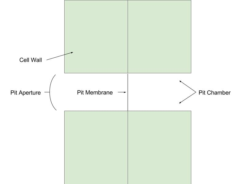 A simplified representation of a simple pit pair, made for the Pit (botany) article on wikipedia.